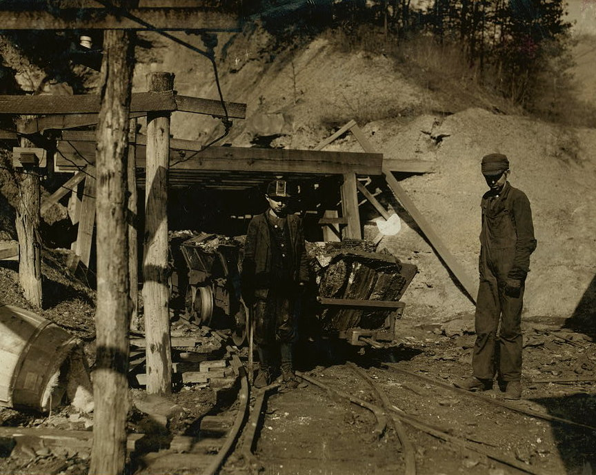 Coal mining in Tennessee. " Hard work and dangerous for such a young boy. James O'Dell, a greaser and coupler on the tipple of the Cross Mountain Mine, Knoxville Iron Co., in the vicinity of Coal Creek, Tenn. James has been there four months. Helps push these heavily loaded cars. Appears to be about 12 or 13 years old. " Location: Coal Creek, Rocky Top, Tennessee.